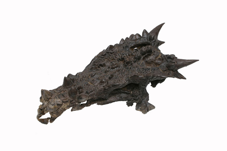 This Dracorex skull is within the permanent collection of The Children’s Museum of Indianapolis